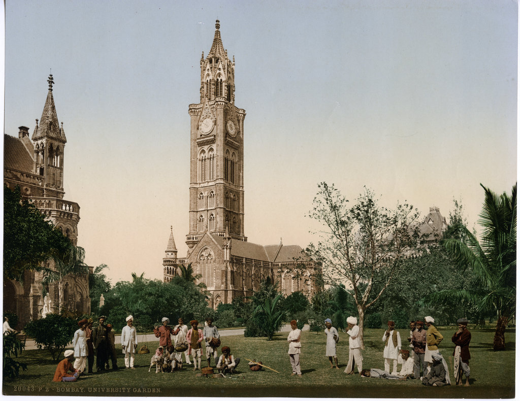 "Bombay University Garden," a photochrome view, c.1890's Source: ebay, May 2013